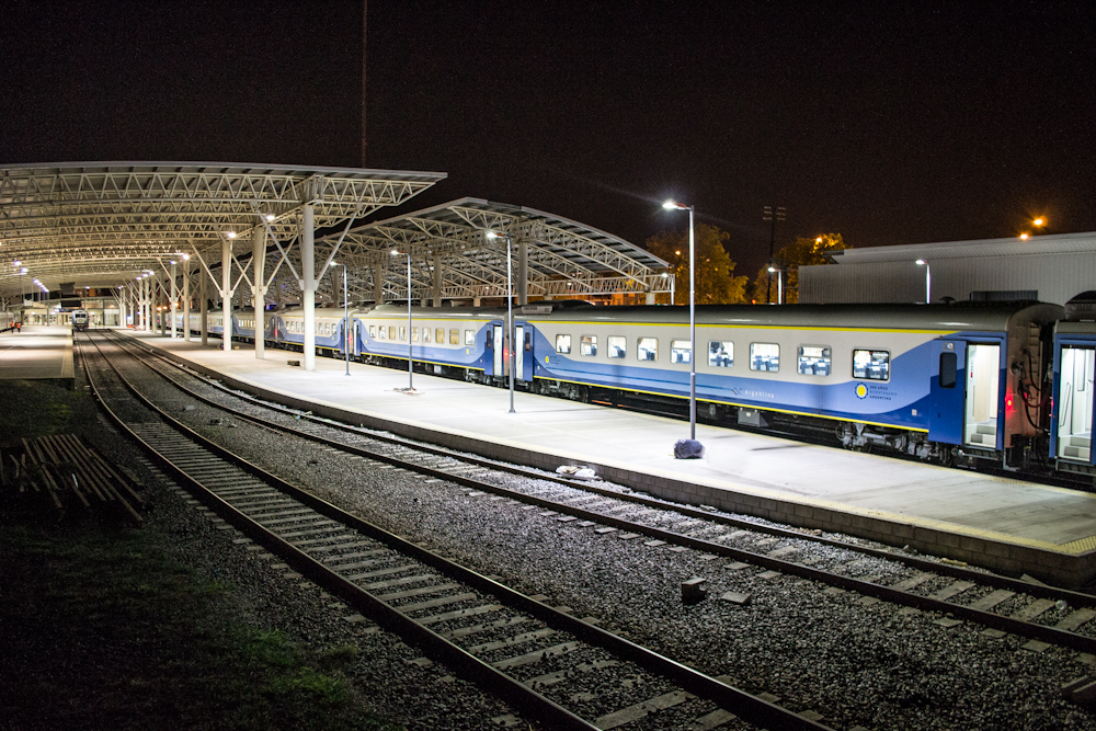 Passenger train at Mar del Plata railway station.